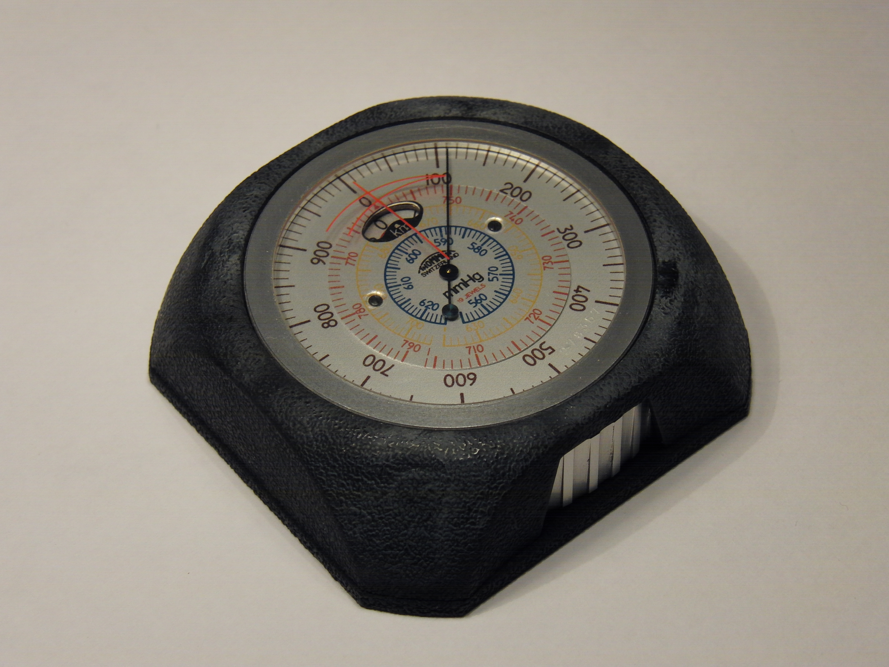 altimeter